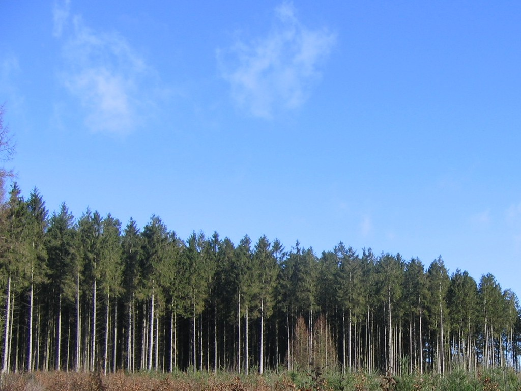 forest